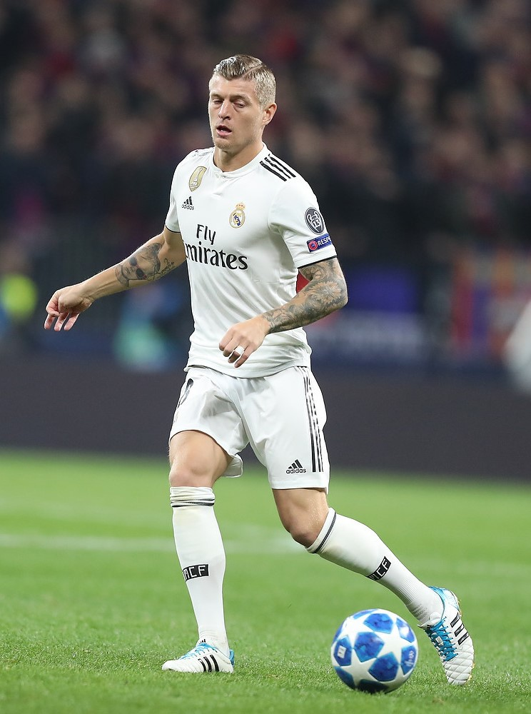 Toni Kroos